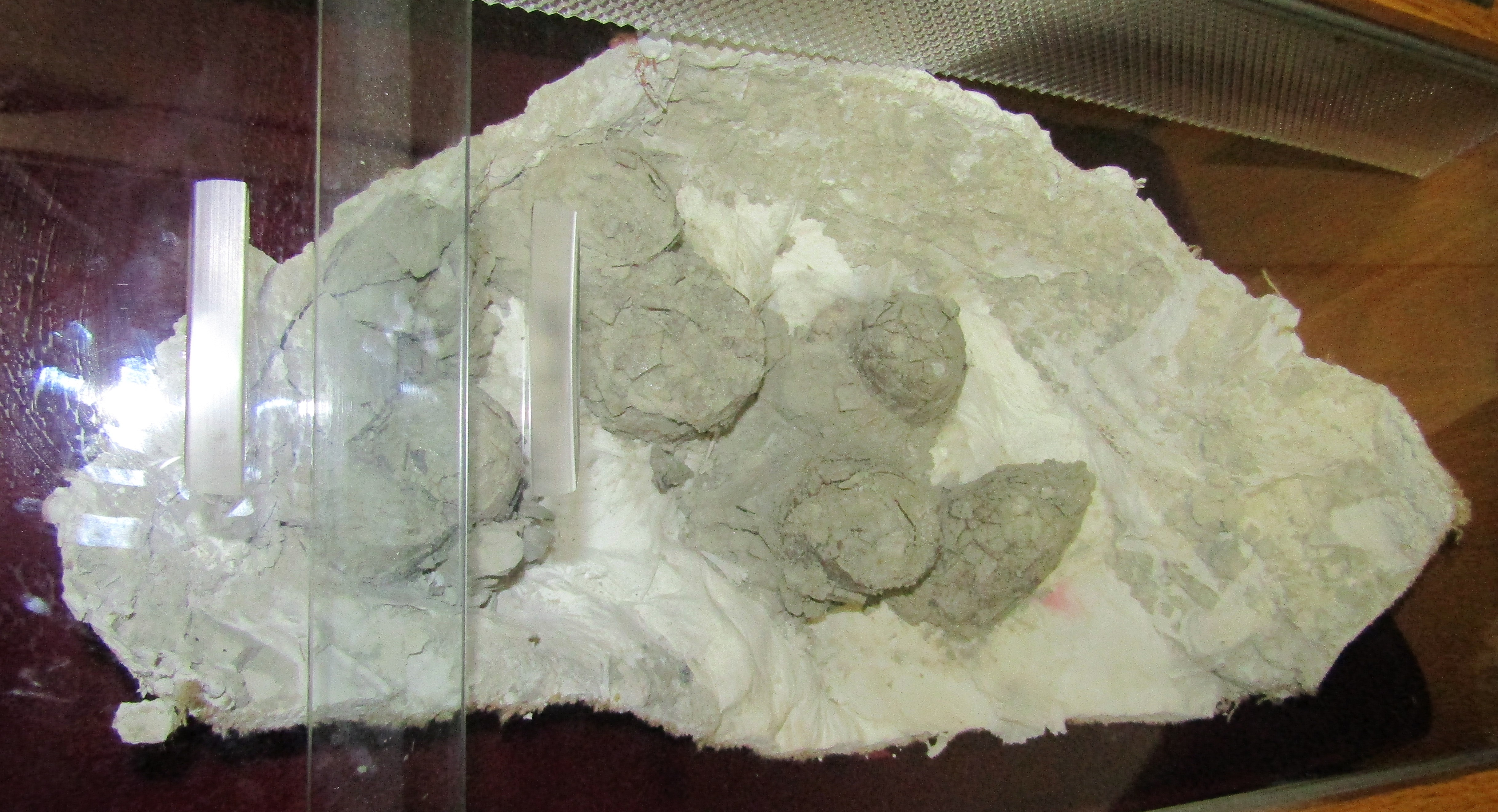 Late Cretaceous dinosaur eggs discovered by Jim Jensen and Rose Difley in the Wasatch Plateau. The eggs are called Prismatoolithus jenseni.